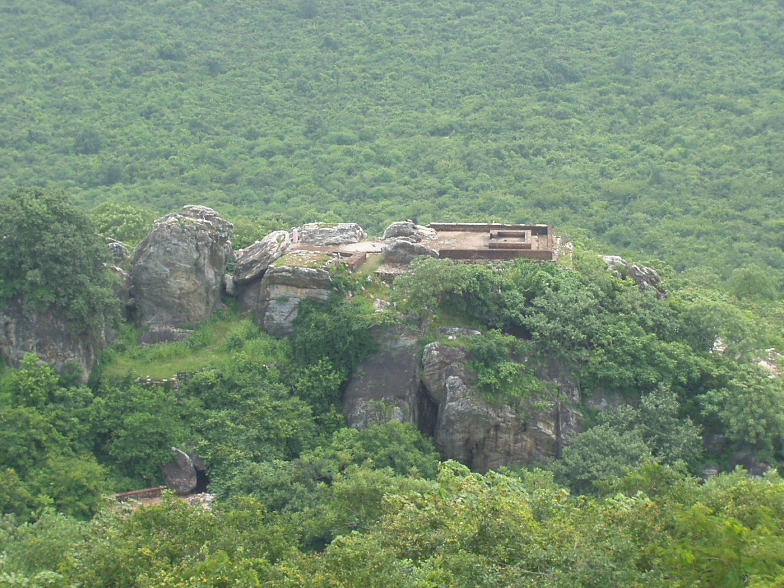 Gijjhakuta, Volture's Peak in Rajgir, Bihar, India